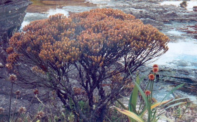 Bonnetia roraimae, Habitus on the Roraima Tepui